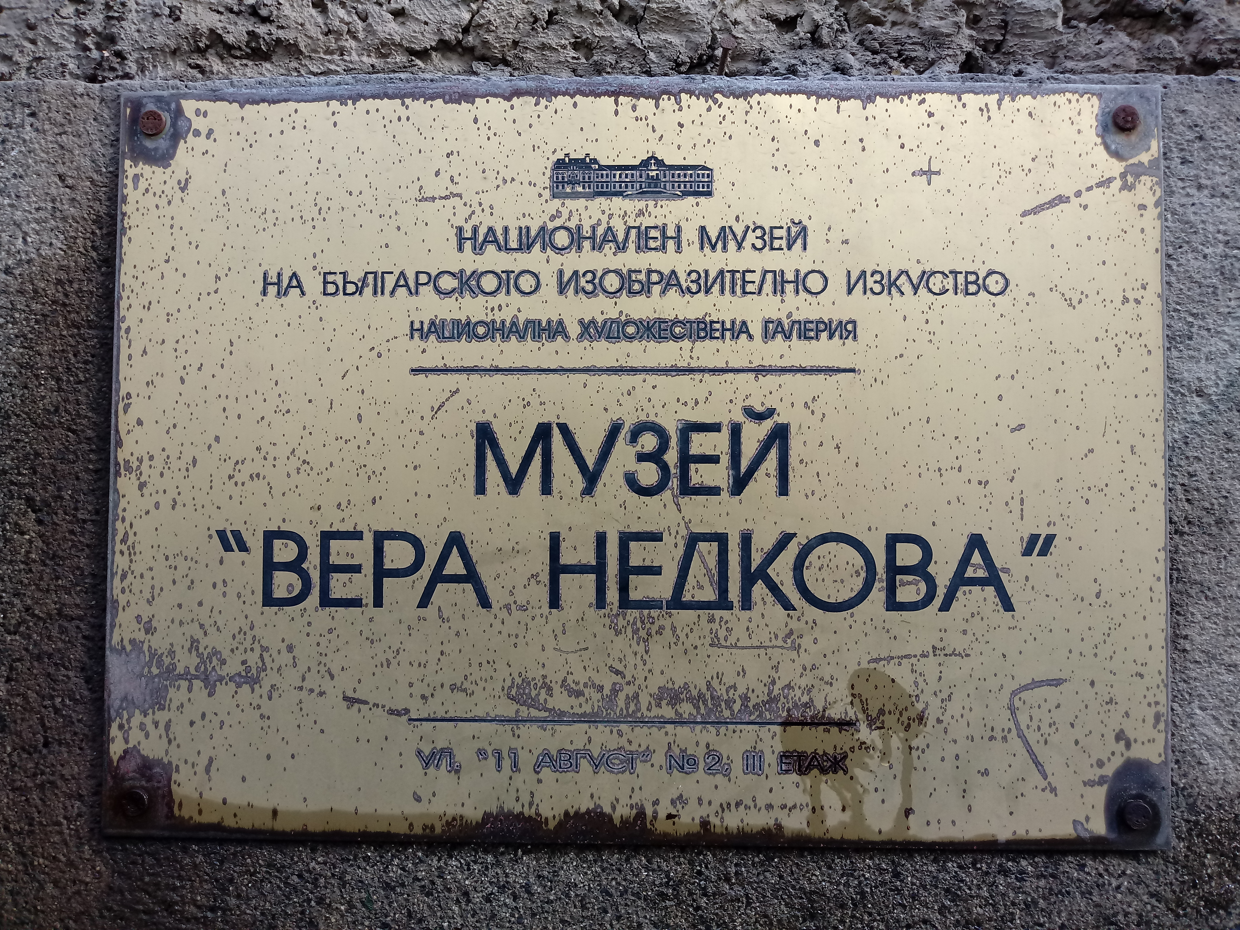 Vera Nedkova museum memorial plaque, 2 "11 August" Str., Sofia